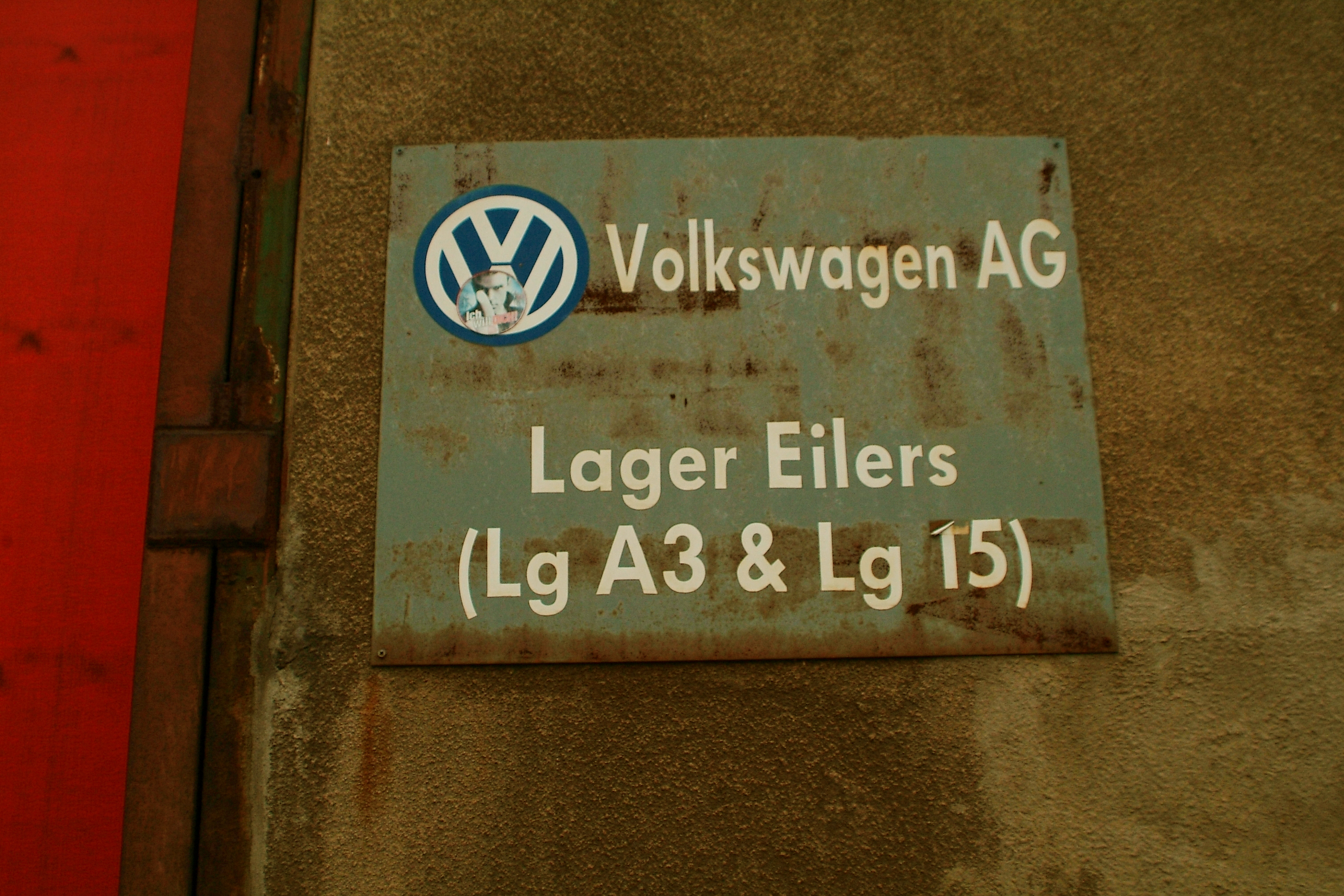 Thanks to all my friends and helpers, especially to the "Hausmeister"